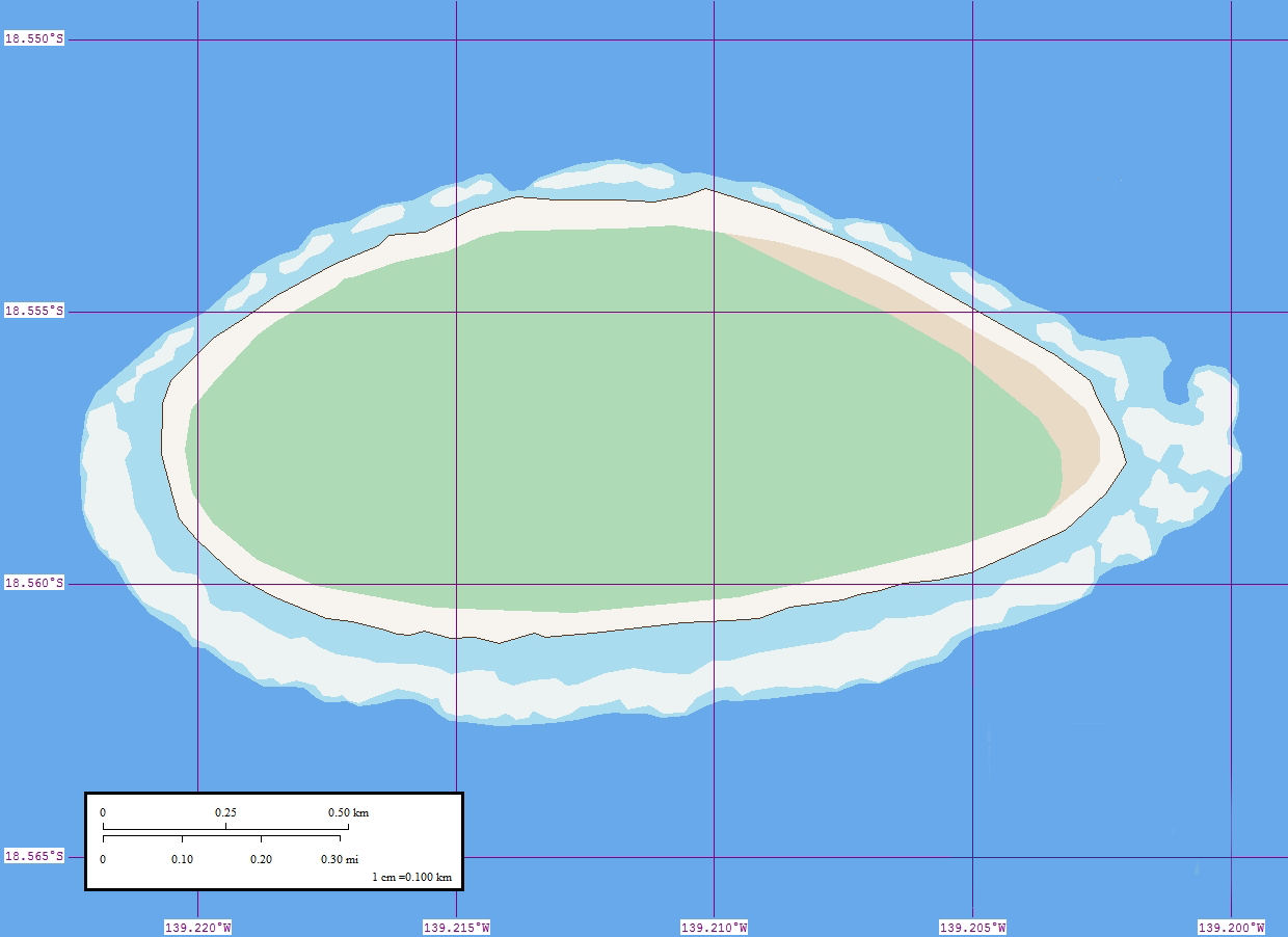 Map of Akiaki Island, Tuamotu Archipelago, French Polynesia. Reef awash Reef shallow Land sand Vegetation forest Vegetation arid